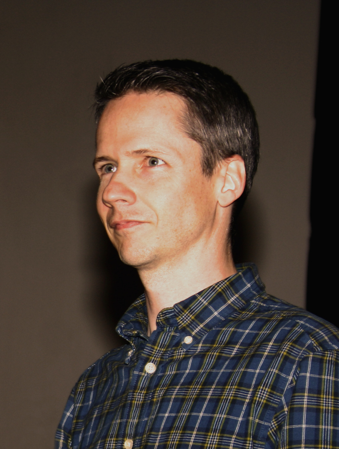 John Cameron Mitchell during Q&A at Mezipatra gay & lesbian film festival 2006 at Kino Světozor, Prague, Czech Republic.